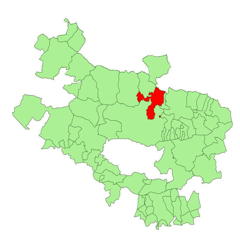 Arrazua-Ubarrundia municipality in the province of Alava